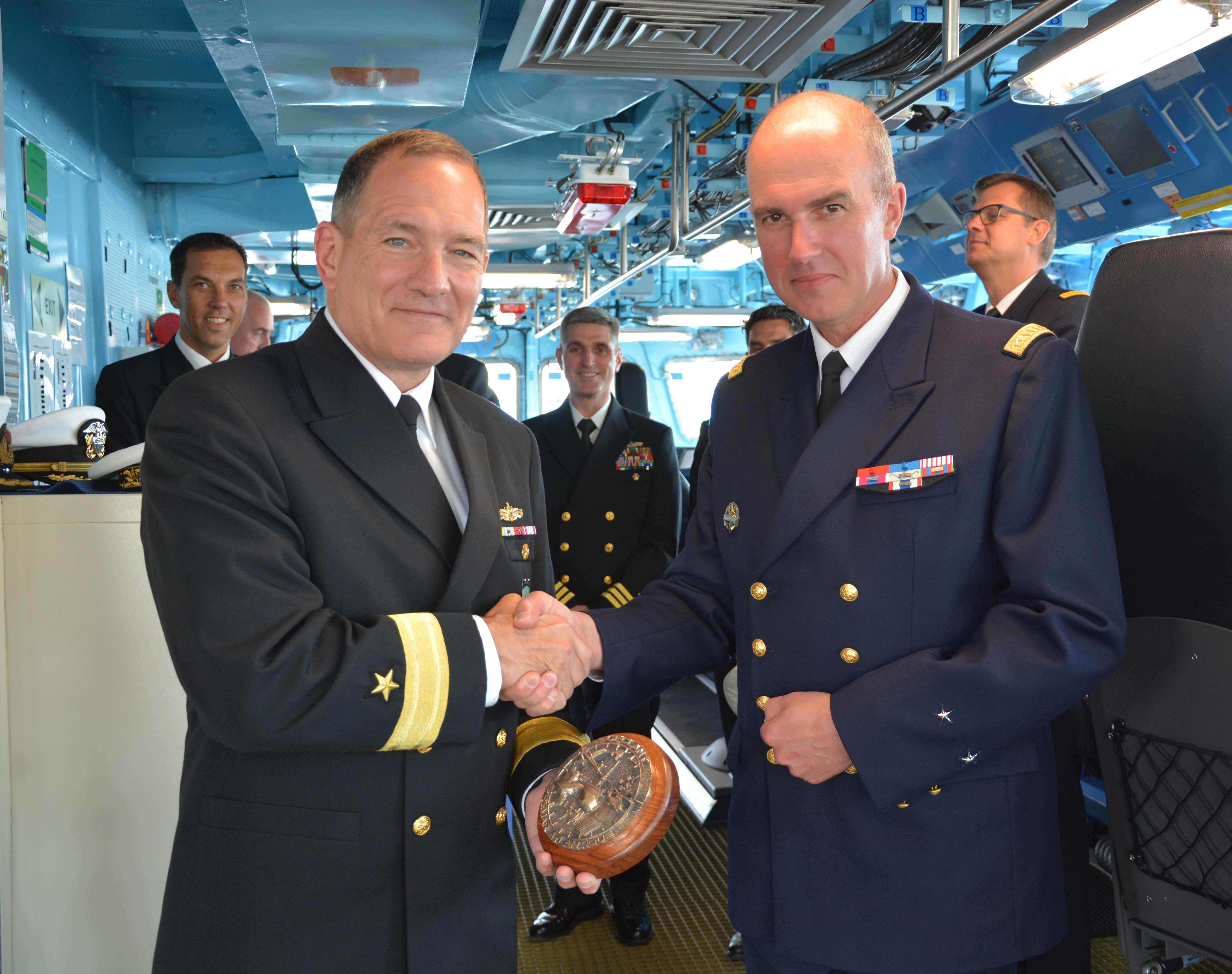 190805-N-HN974-0159 BREST, France (Aug. 05, 2019) Rear Adm. Edward Cashman (left), commander of Standing NATO Maritime Group One (SNMG1), and Rear Adm. Arnaud Provost-Fleury (right), deputy commander of the French Atlantic Command, exchange gifts aboard the Royal Norwegian navy Fridjof Nansen-class frigate HNoMS Thor Heyerdahl (F-314) during SNMG1's force assembly. Thor Heyerdahl is underway on a regularly-scheduled deployment as part of Standing NATO Maritime Group 1 to conduct maritime operations and provide a continuous maritime capability for NATO in the northern Atlantic. (U.S. Navy photo by Lt. Emily Strong)